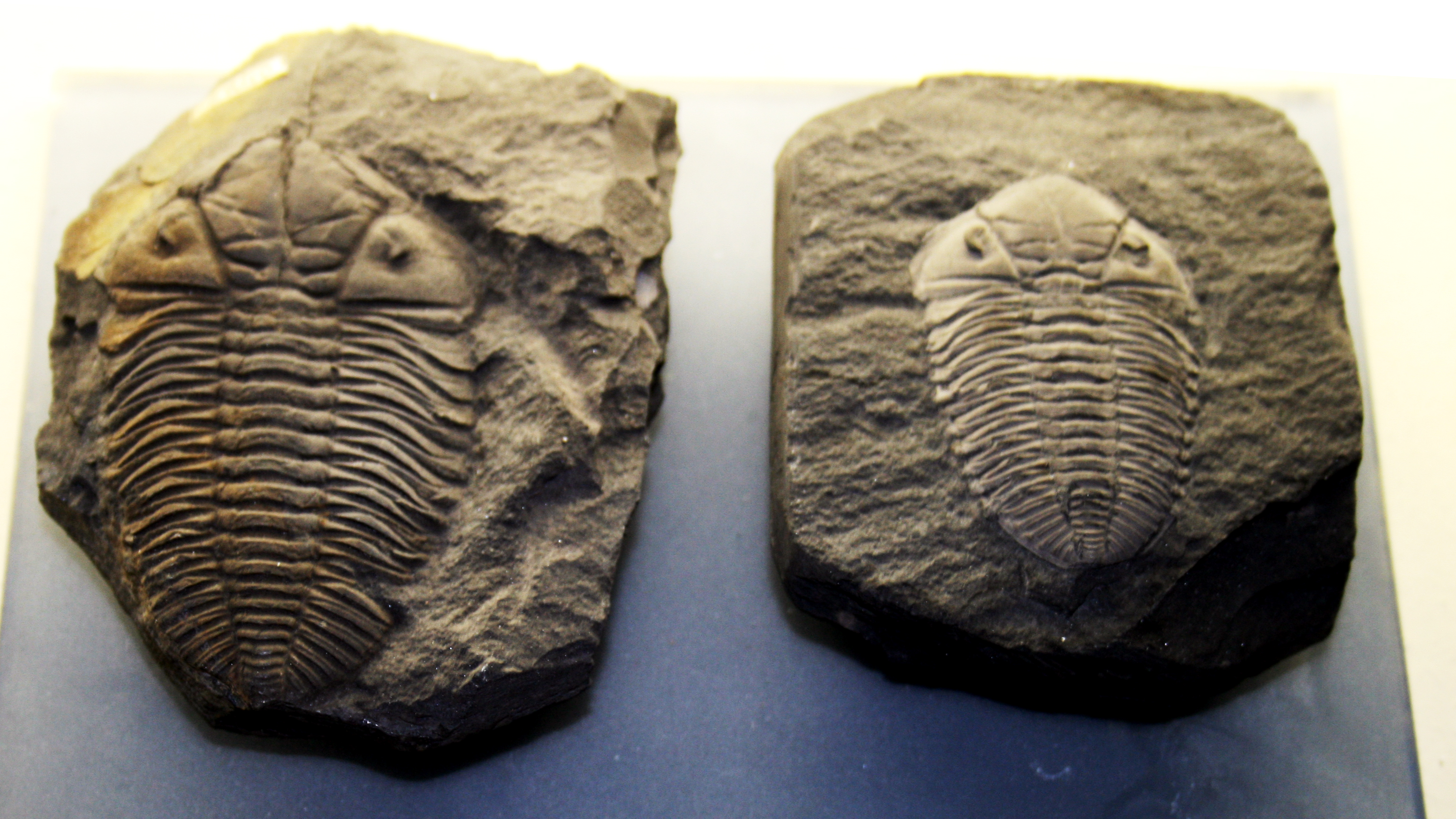 Fossils of Dalmanitina proaeva from National Museum, Prague, Czech Republic